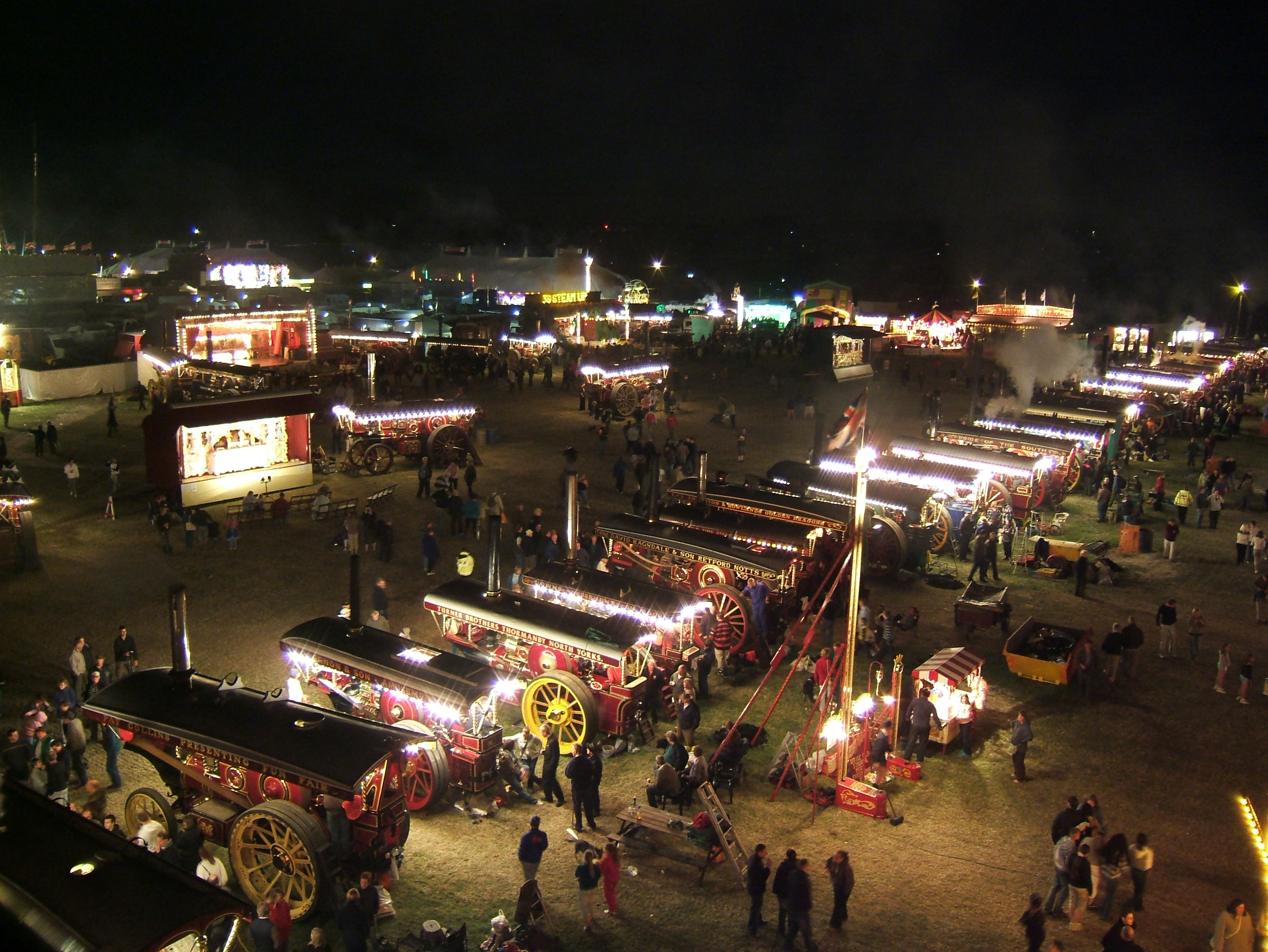 Great Dorset Steam Fair -- Line-up of Showman's Engines in the fairground (at night) taken from the 'big' wheel About 28 showman's engines are visible in the picture, but the famous 'line-up' comprised about 30 on its own -- there were about 10 more out-of-shot to the left of the picture, and the line continues to the right, too! (guess who mis-spelled the filename!)